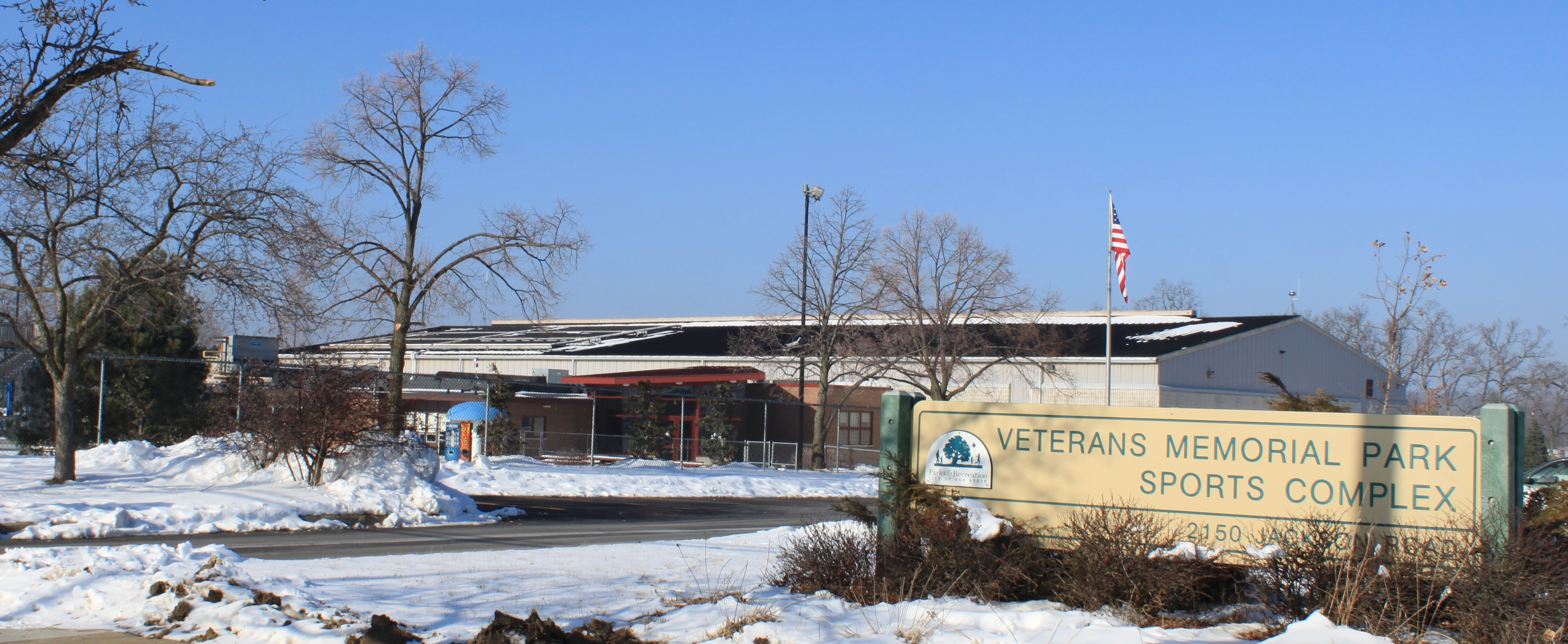 Veterans Memorial Park Sports Complex, 2150 Jackson Road, Ann Arbor, Michigan